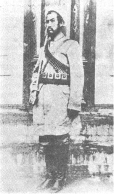 The uighur emir Abdullah Bughra, killed at yarkand in april 1934 by chinese muslim forces. Brother of Nur Ahmad Jan Bughra and Muhammad Amin Bughra.